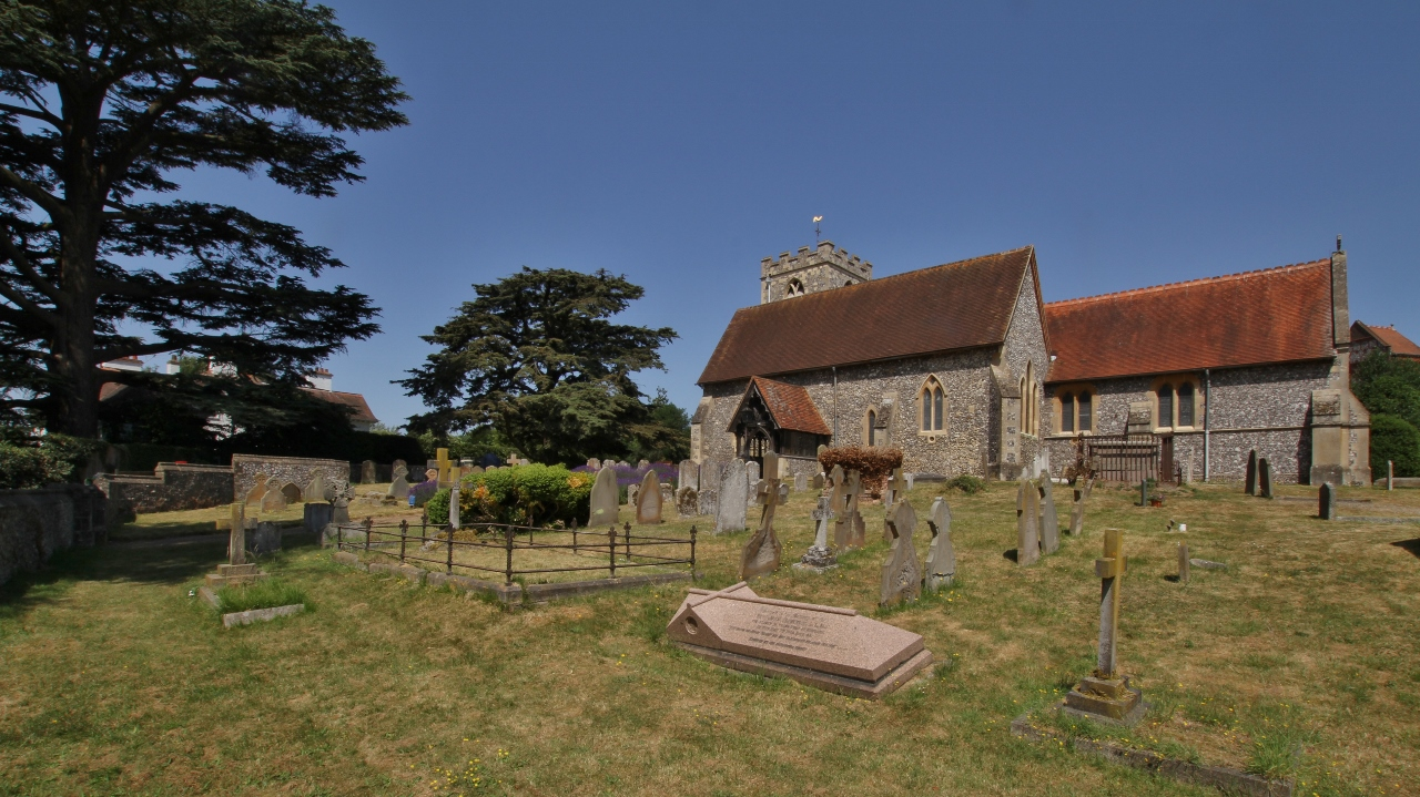 Parish church of SS Peter and Paul, Shiplake, Oxfordshire, seen from south-southeast